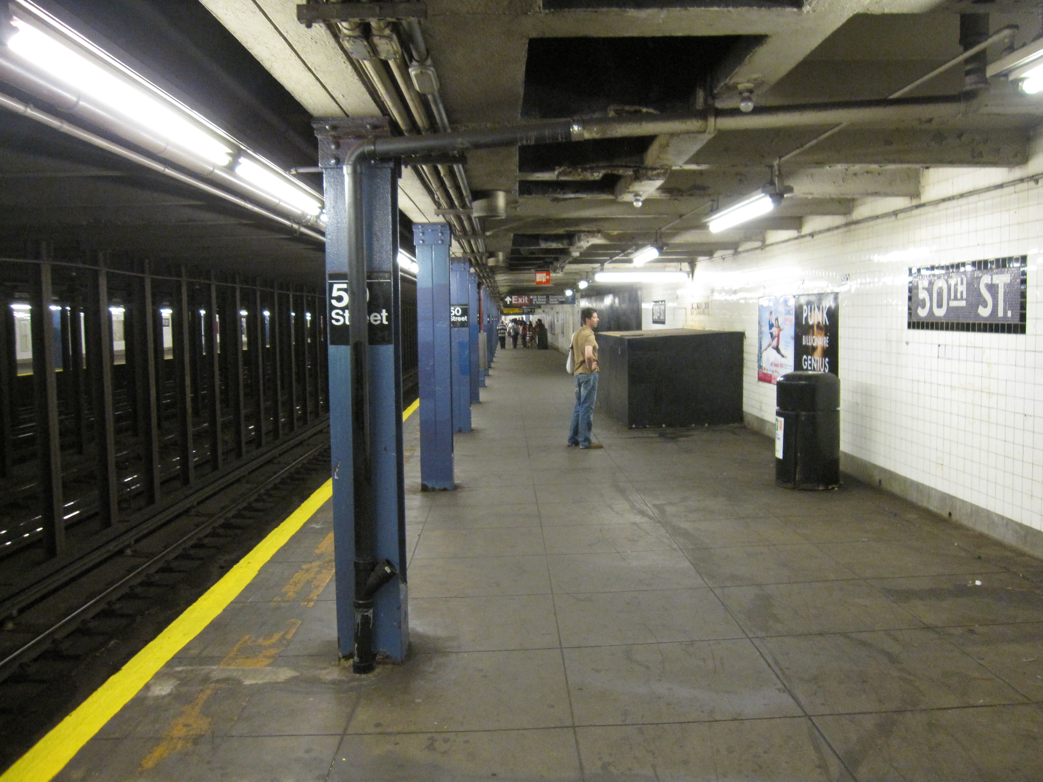 Downtown platform 50th Street (IND Eighth Avenue Line)